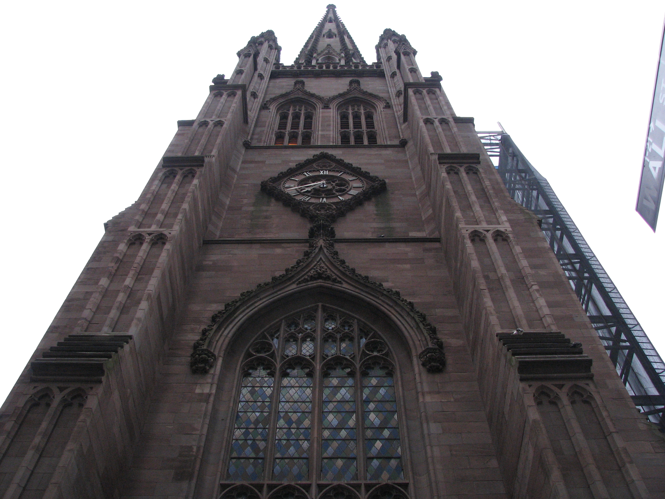 Facade of Trinity Church, New York